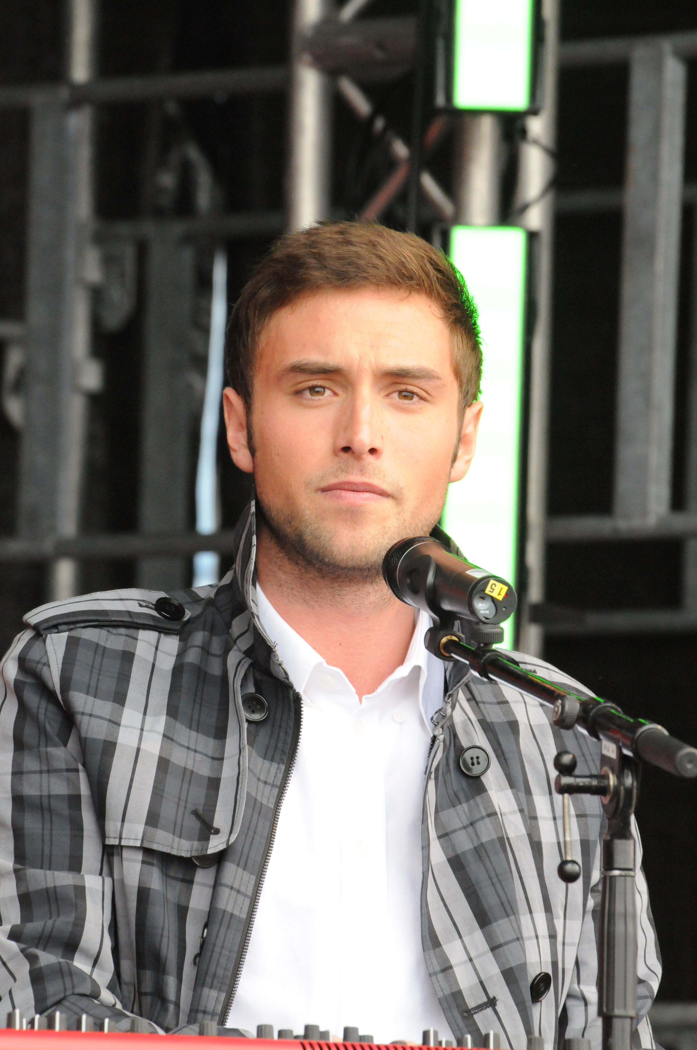 Måns Zelmerlöw at Media MArkt in Norrköping